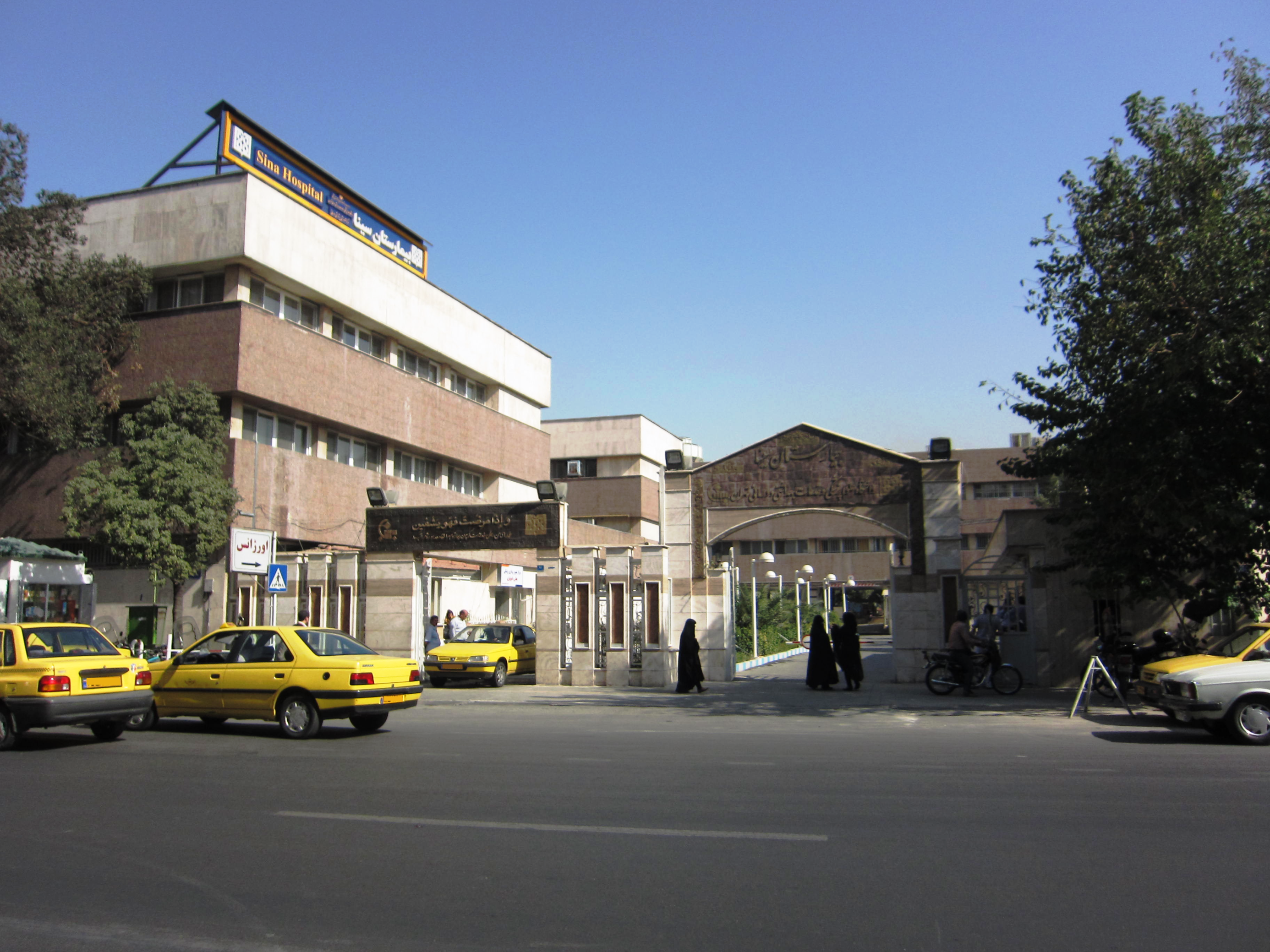 The gate of Sina Hospital in Imam Khomeini street in Tehran